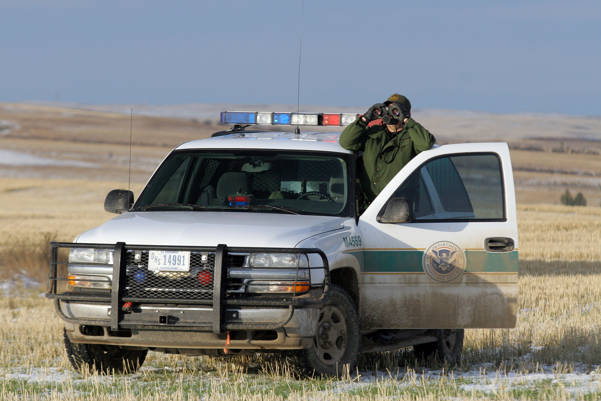 A CBP Border Patrol agent monitors the Canada–United States border near Sweet Grass, Montana.